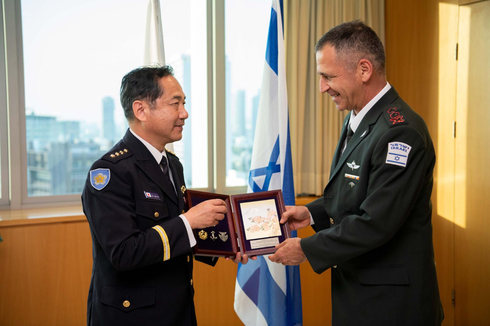 In a conversation held earlier this week, IDF Chief of the General Staff, LTG Aviv Kohavi, and his Japanese counterpart, General Koji Yamazaki, discussed the implications of the COVID-19 outbreak; sharing lessons learned combating the pandemic. In addition, the two senior officials explored opportunities for future defense cooperation. Israel-Japan relations are based on both countries’ strong will to further develop cooperation to achieve and cultivate mutual goals and interests. Japan is essential to maintaining security and stability in the region as it is an important contributor to the MFO’s peacekeeping operations along the Israeli border in Sinai.